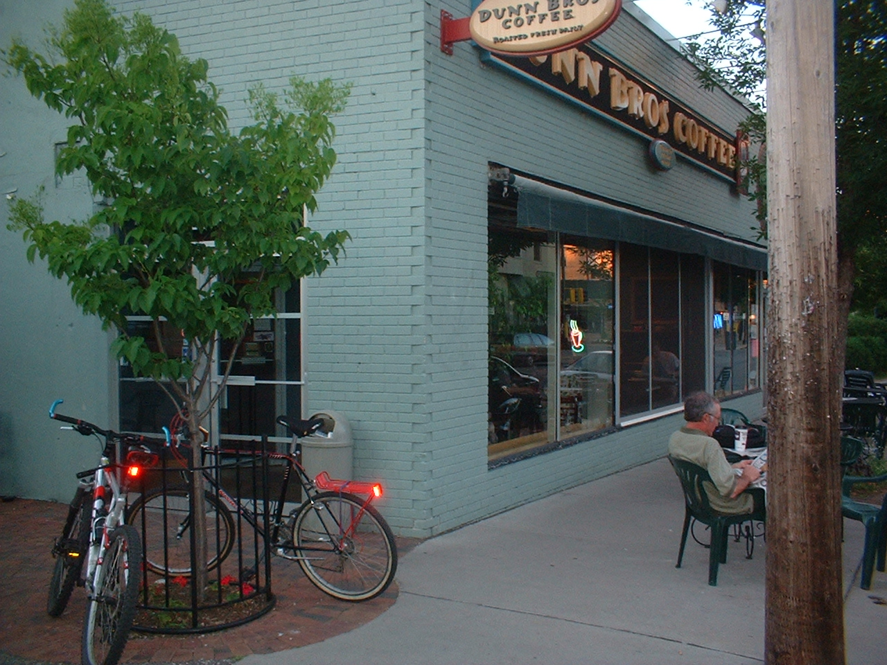 Dunn Bros exterior in Linden Hills, Minneapolis